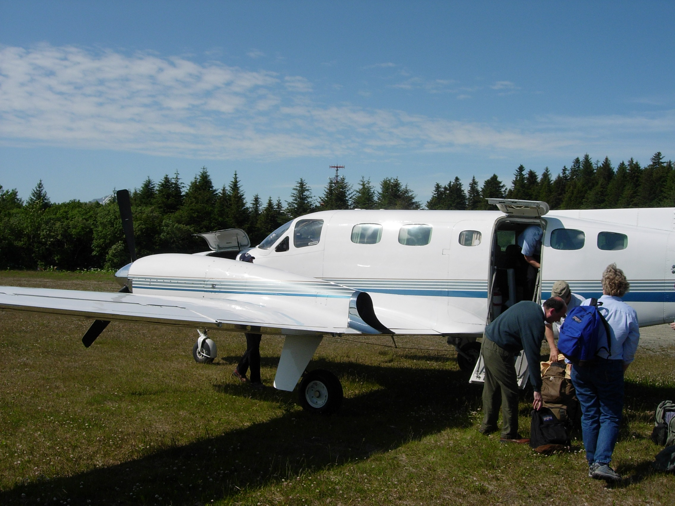 The plane that took us from Anchorage to Cape Yakataga.